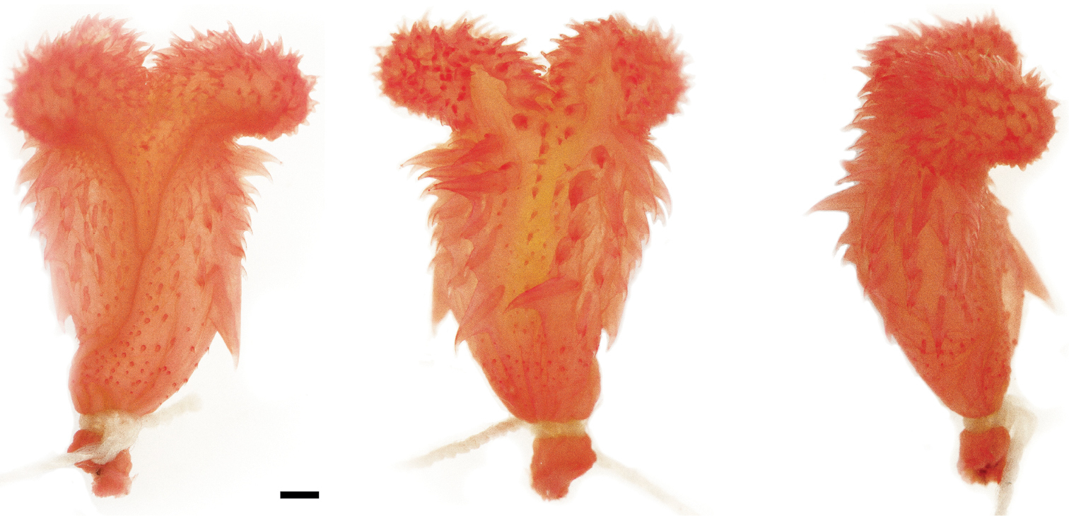 Left hemipenis of Synophis insulomontanus sp. n. (CORBIDI 13940, holotype) in sulcal (left), asulcal (center), and lateral (right) views. Scale bar = 1 mm.